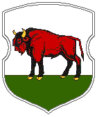 Coat of Arms of Bielsk Podlaski, old.gif